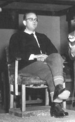 Original: "10 June. L/r: Defense witness, Dr. Morgan; German radio reporter, Werner Klein; interpreter, Rudolph Nathanson, WDC; and defense attorney, Dr. Wacker. Dr. Morgan was an investigator who came to Buchenwald to investigate Commander Koch, who was in charge at the time. Through Dr. Morgan's investigation Koch was arrested and executed. Dr. Morgan is also a prisoner at Dachau."